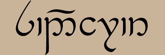 the word "Sindarin" in J.R.R. Tolkien's tengwar script, Beleriand (Elven) orthography